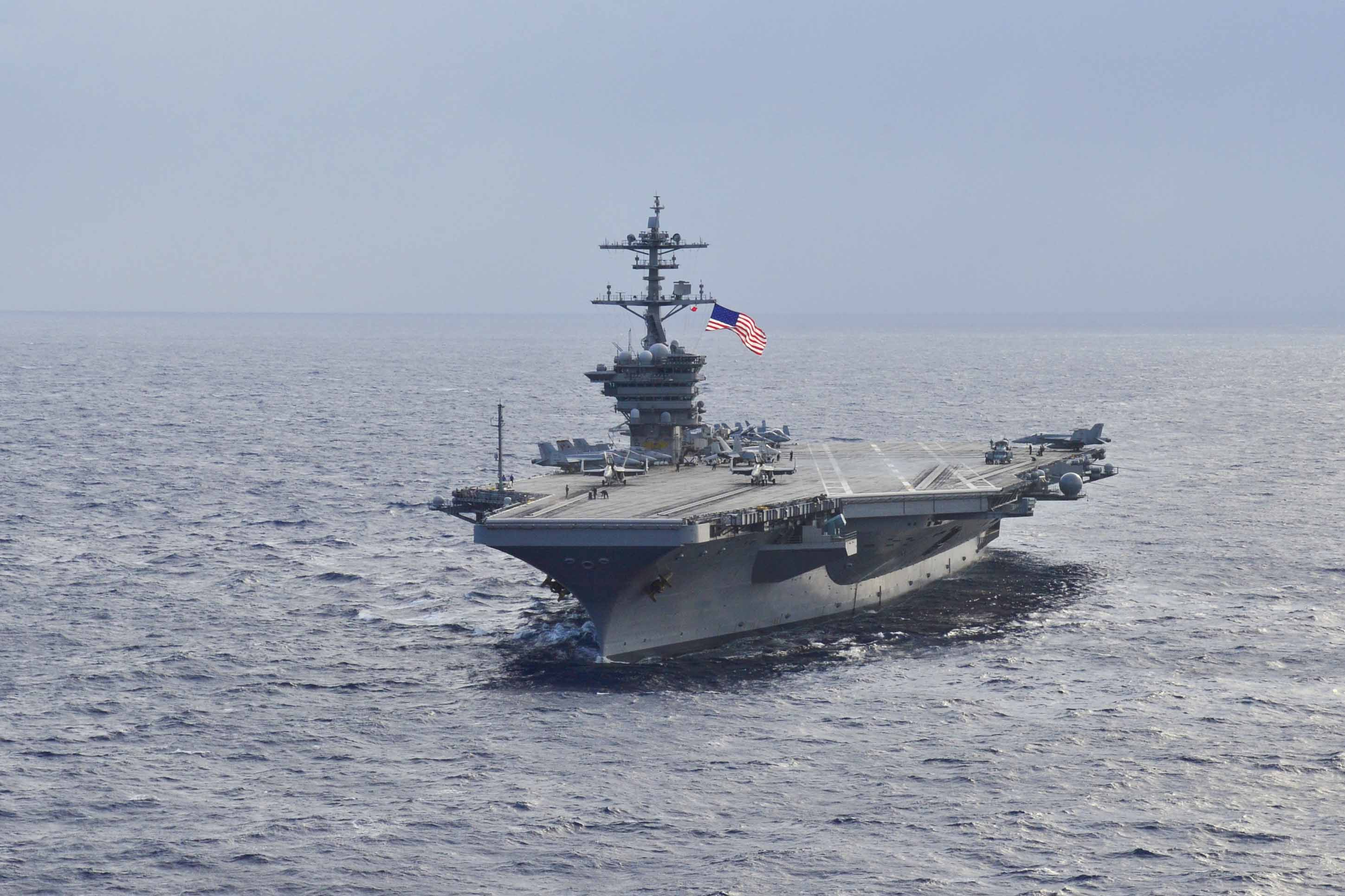 140918-N-PG340-937 ATLANTIC OCEAN (Sept. 18, 2014) The aircraft carrier USS Theodore Roosevelt (CVN 71) transits the Atlantic Ocean. Theodore Roosevelt is underway conducting training for future deployments. (U.S. Navy photo by Mass Communication Specialist 3rd Class Stephane Belcher/Released)